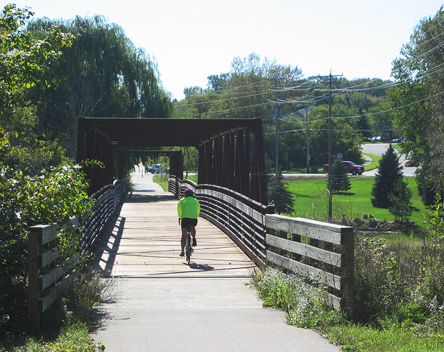 I took this photograph on October first, 2006, on the Ozaukee Interurban Trail in Grafton, Wisconsin, using a Canon PowerShot SD400 camera.